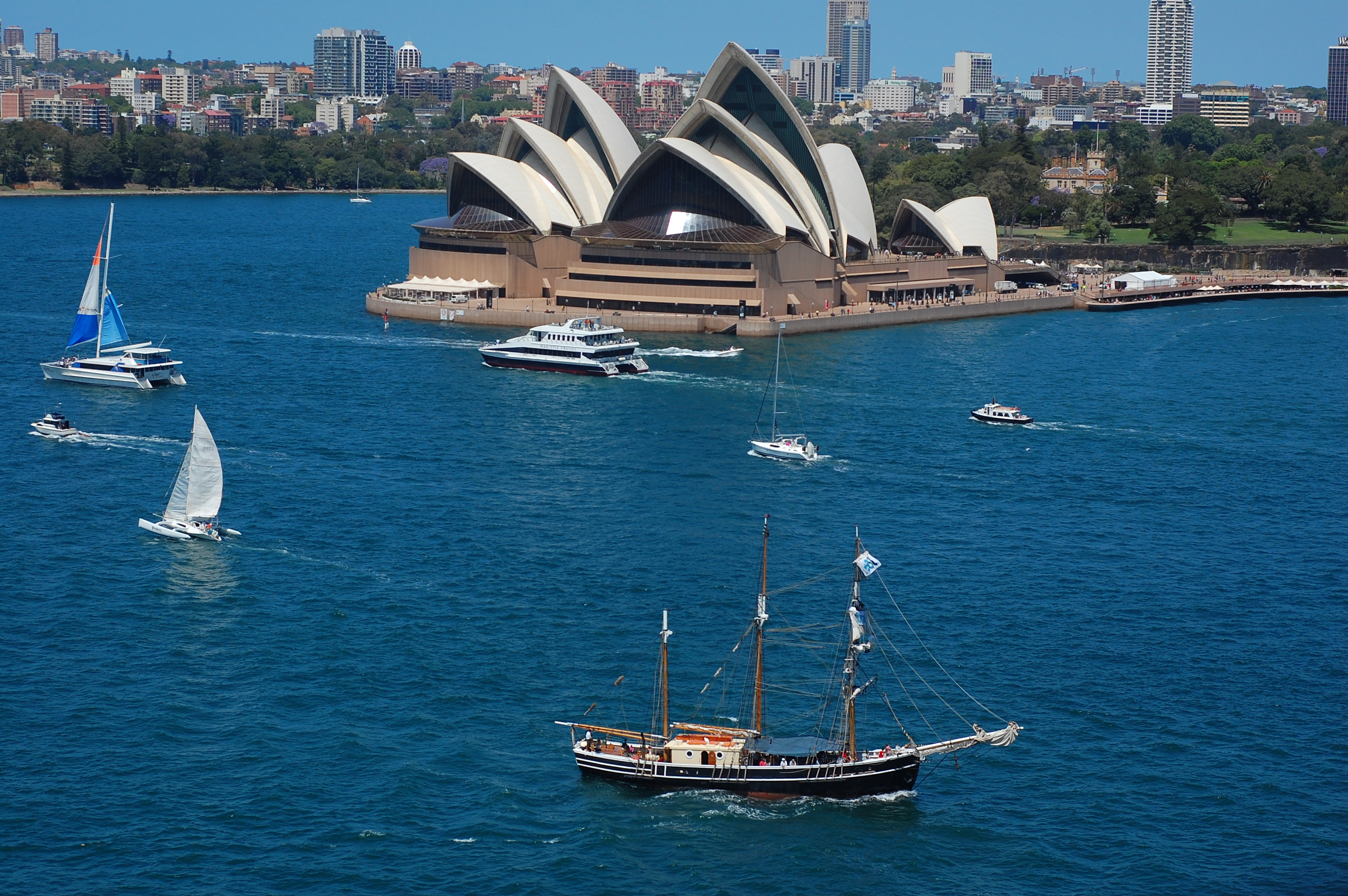 Sydney Opera House with a tall ship in the foreground (part of the day of action)